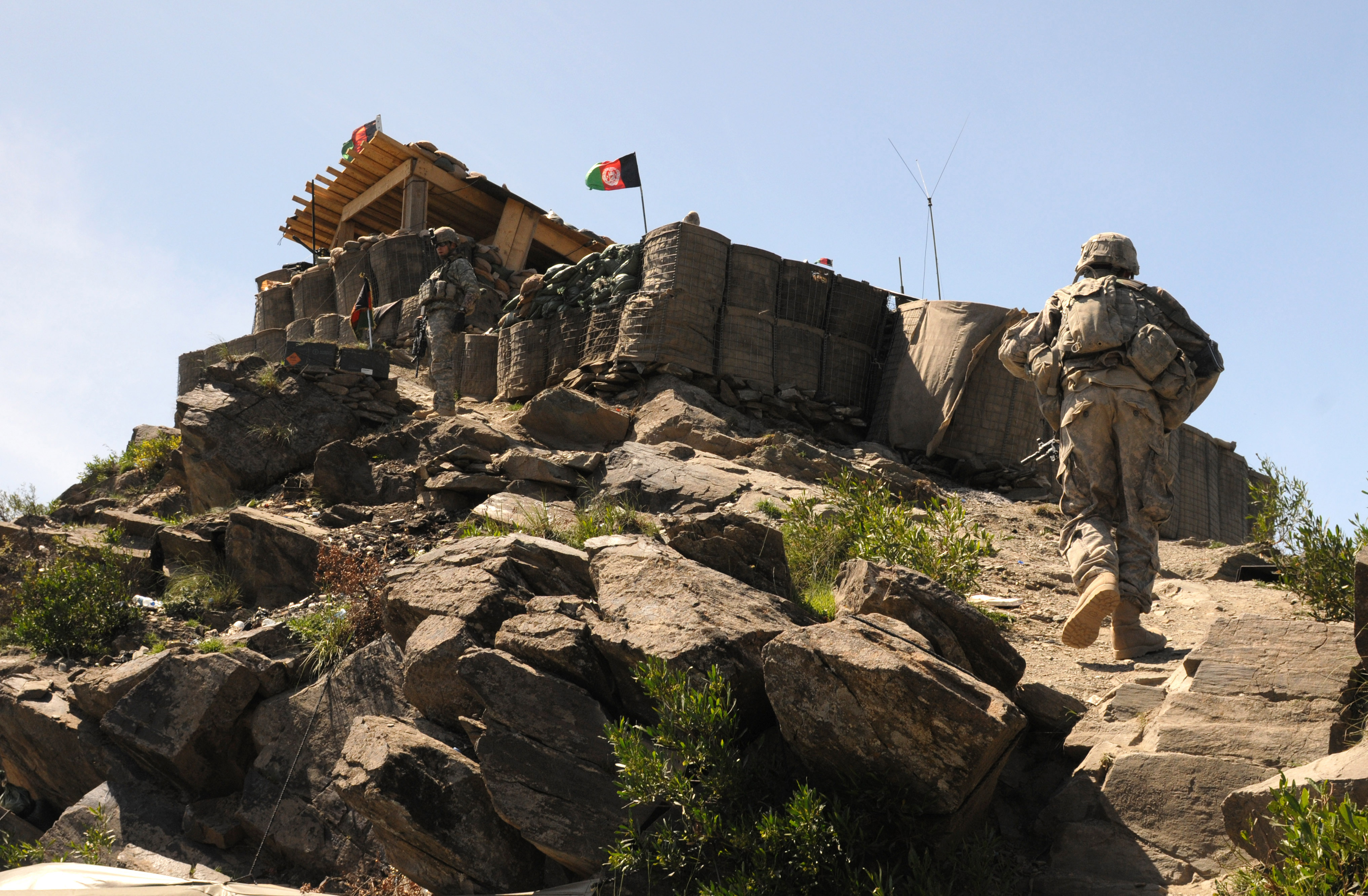 Ascent into OP Bari Alai